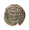 8th century CE Umayyad post-reform copper fals bearing the radial inscription of "Bismallah thuriba bil-Urdun" (In the name of God, struck in Jordan).